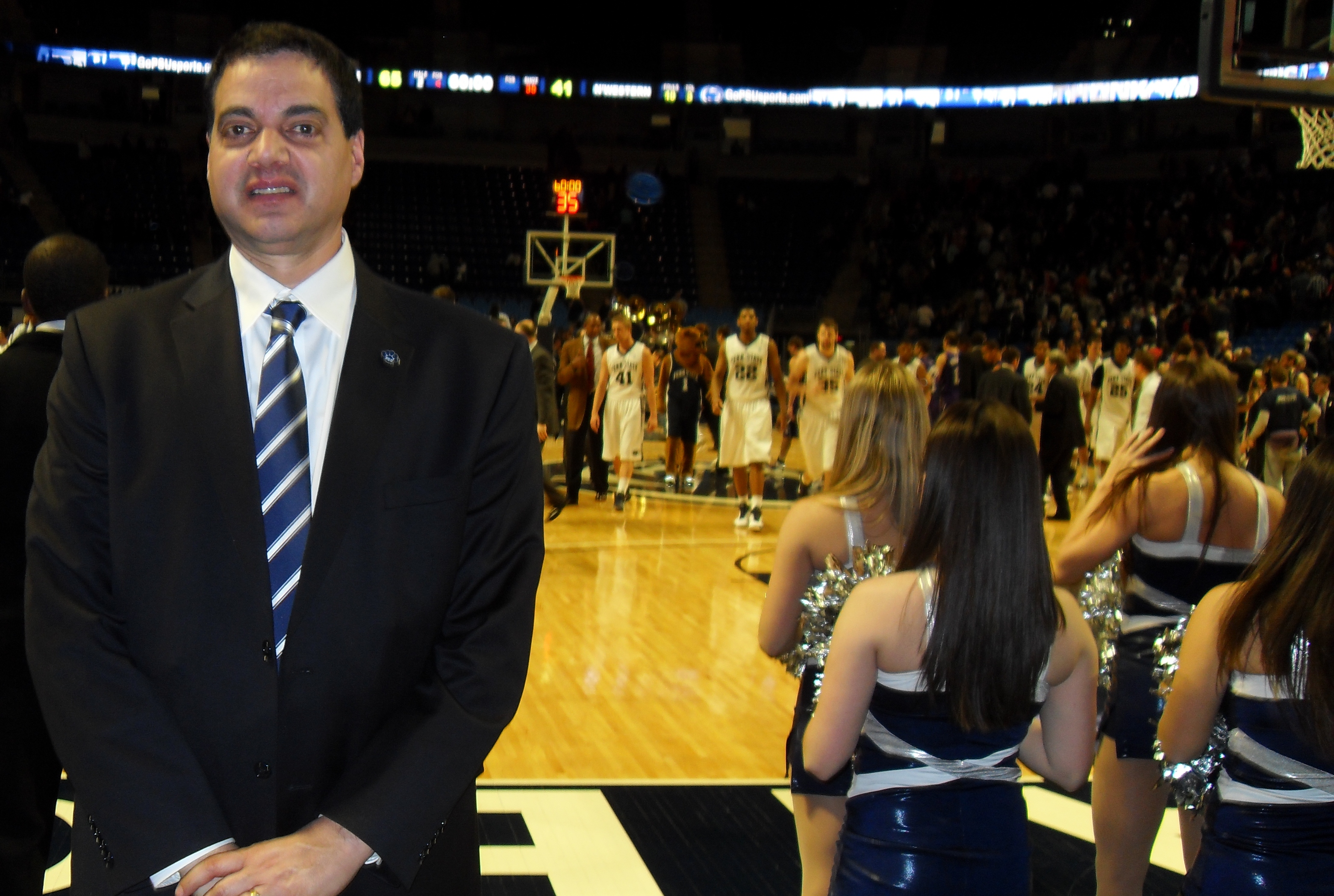 Chris Roupas at Penn State's Basketball Alumni Day, February 13, 2011.